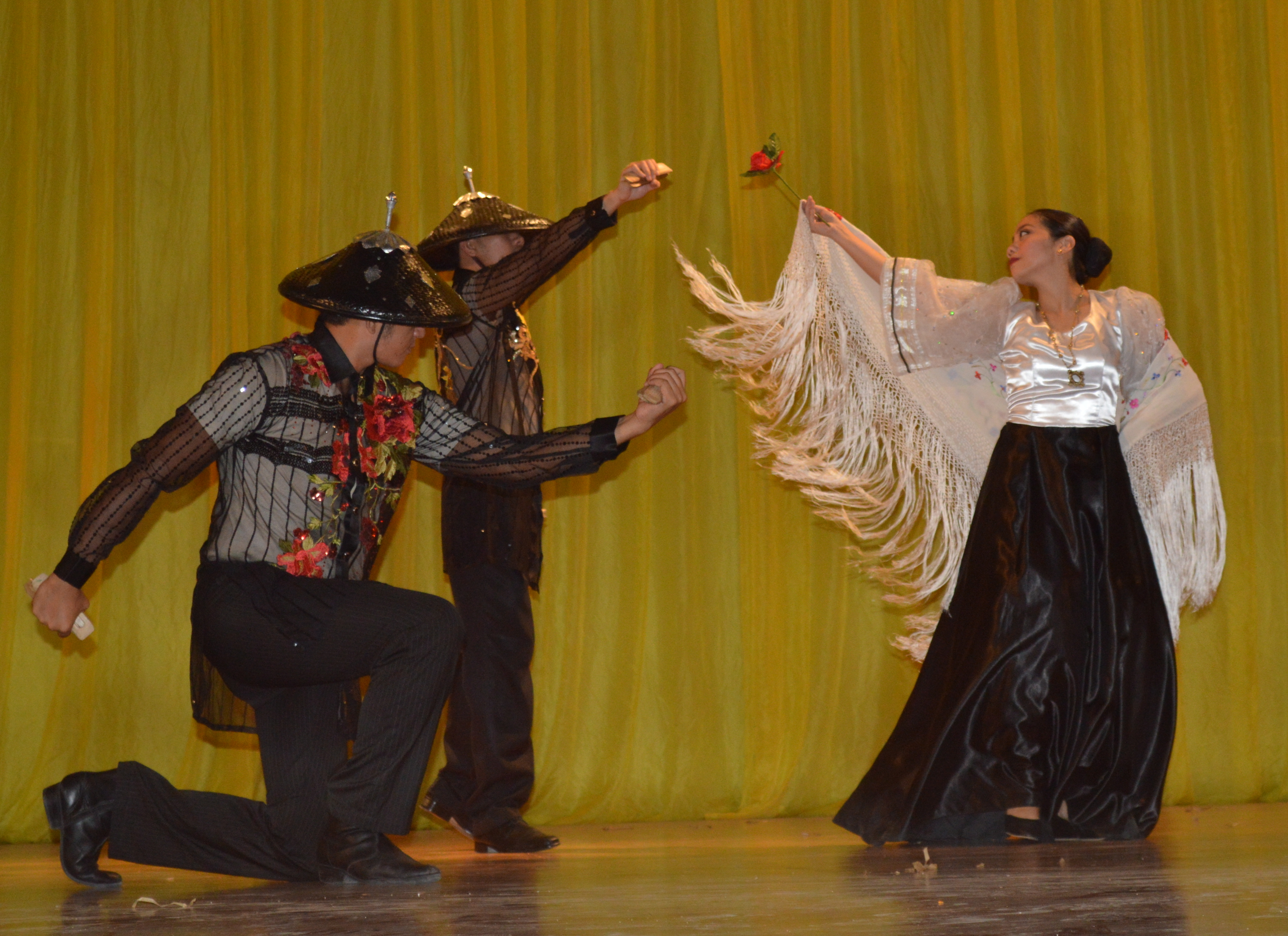 This is an image from Egypt